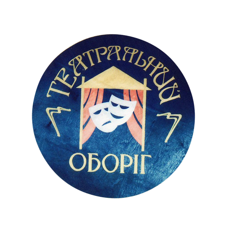 емблема театру "Оборіг"